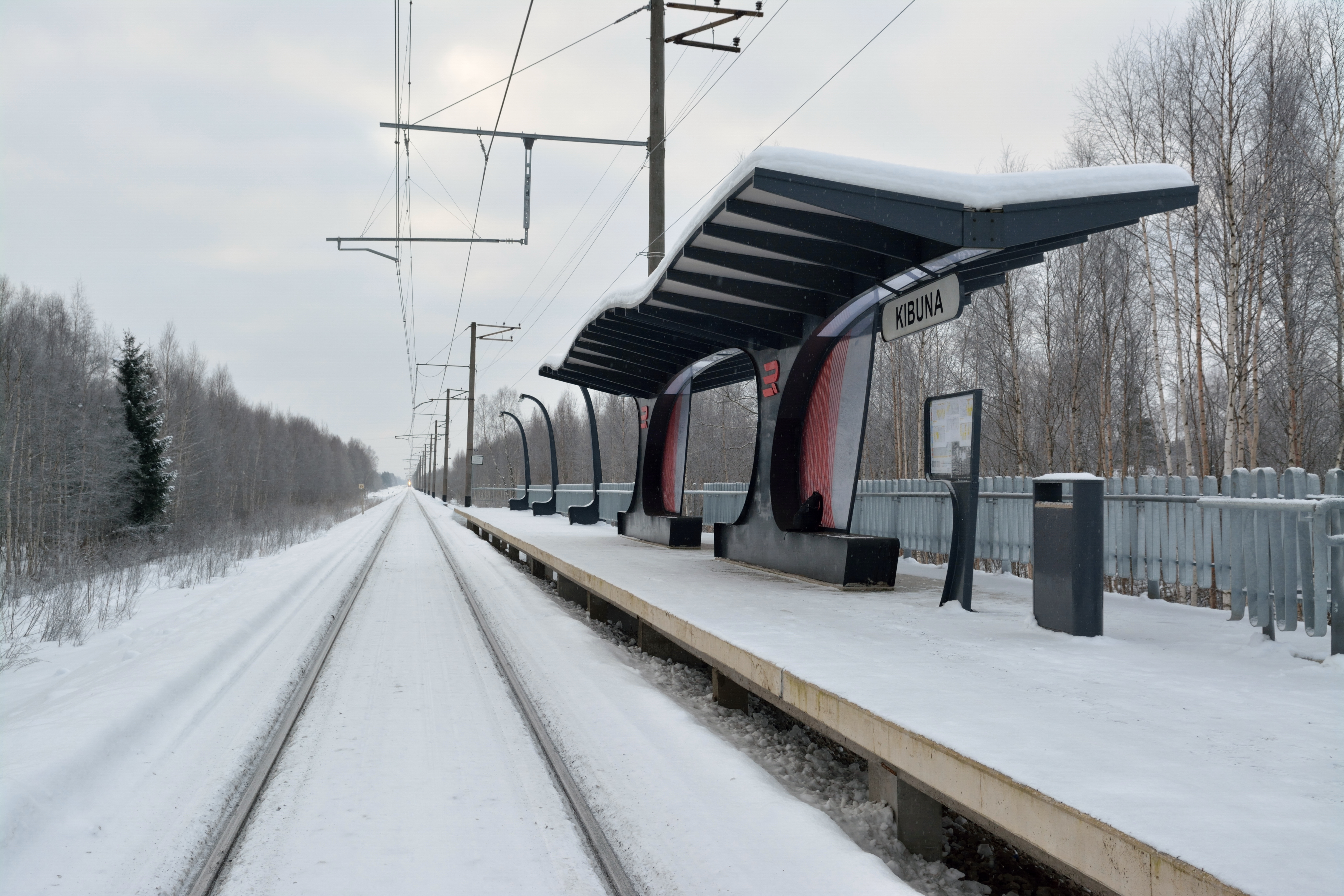 Kibuna train stop